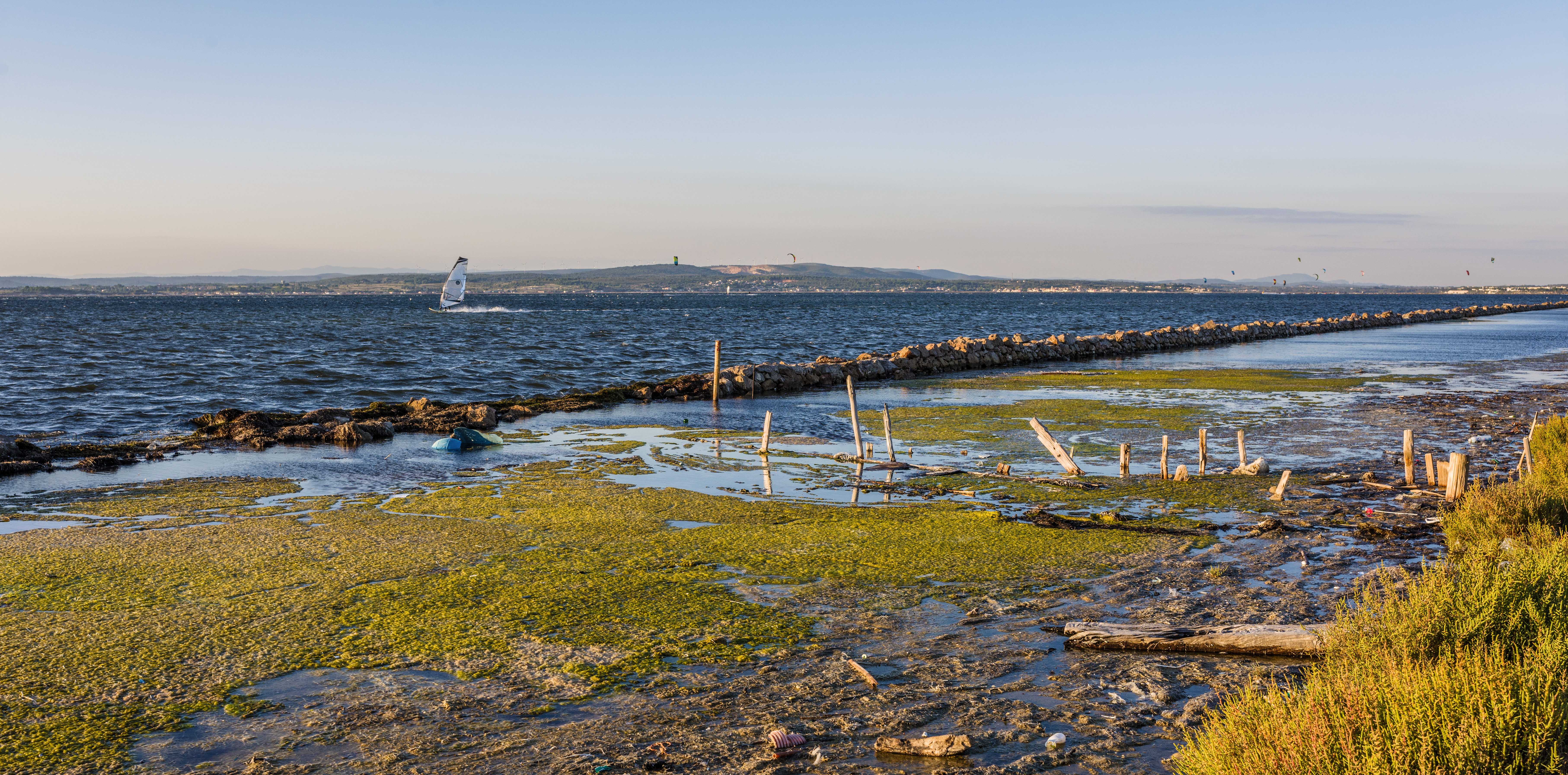 "Lido de Thau", an area protected by the Conservatoire du littoral, and windsurfing on the Étang de Thau. Sète, Hérault, France.